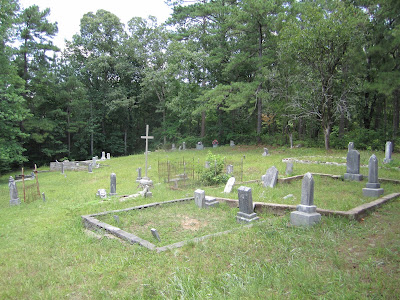 Blocton Italian Catholic Cemetery Blocton Italian Catholic Cemetary on Historic Alabama